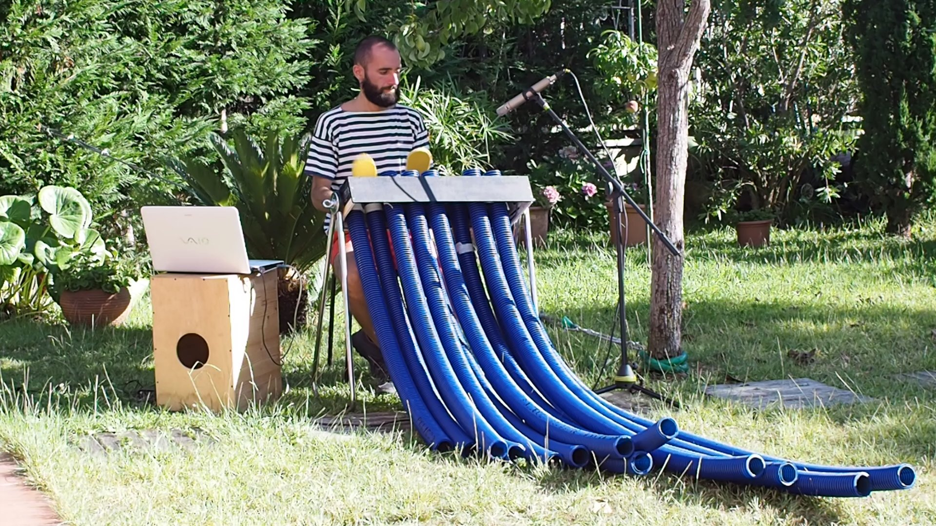 Chromatic Polypropylene Pipephone